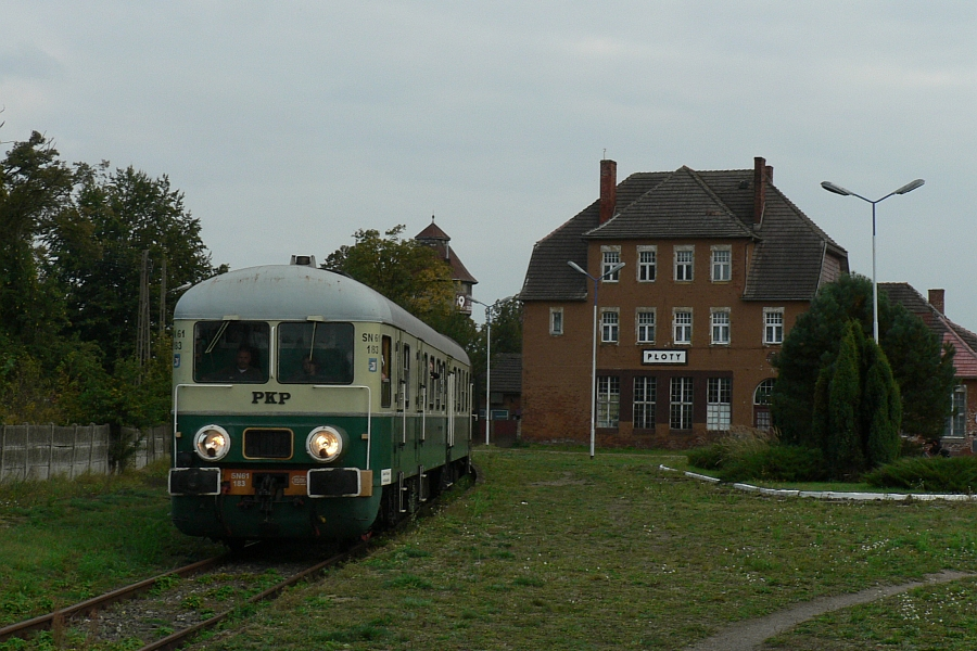 Rail station Płoty.